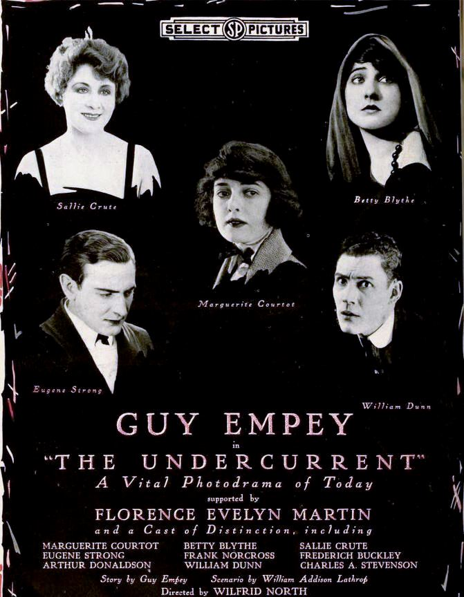 Advertisement for the American drama film The Undercurrent (1919) with supporting cast members Sally Crute (as Sallie Crute), Betty Blythe, Marguerite Courtot, Eugene Strong, and William R. Dunn (1888 – 1946), in the insert after page 1878 of the June 28, 1919 Moving Picture World.